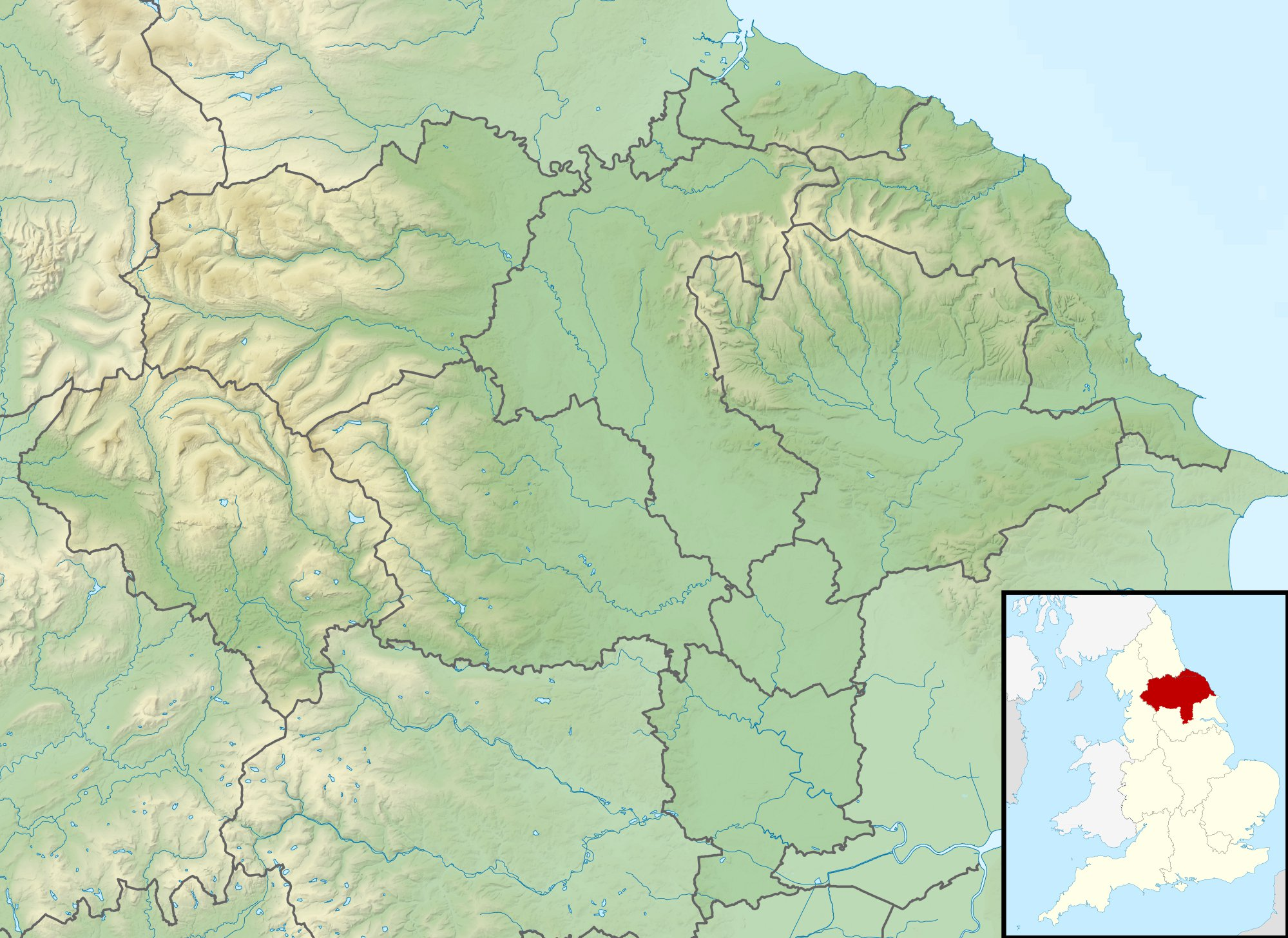 Relief map of North Yorkshire, UK. Equirectangular map projection on WGS 84 datum, with N/S stretched 170% Geographic limits: West: 2.60W East: 0.10W North: 54.67N South: 53.60N